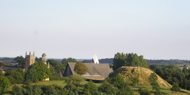 Dundonald Moat & St Elizabeth's Church. Ancient "Motte" now alas surrounded by modern "civilisation"